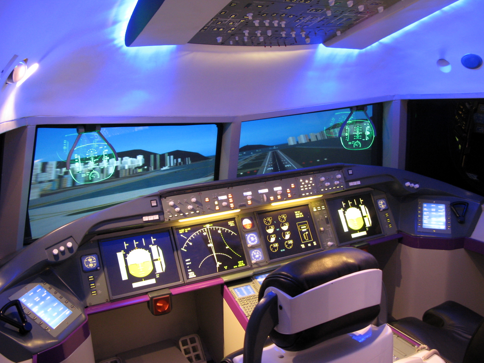 Aviation Discovery Centre Simulation Plane